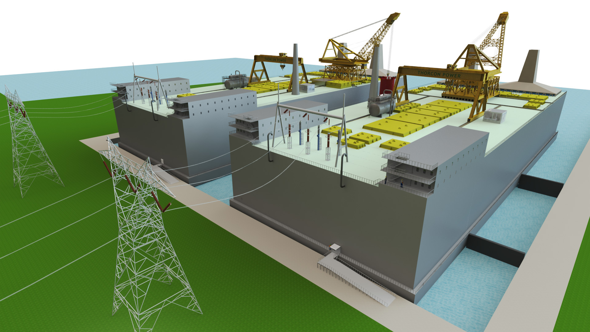 This is an artists impression of the TMSR-500 conceptual design. It shows two adjacent TMSR-500 power plants connected to the grid. Each of the plants has four reactors. Two 250 MW active reactors and two extra reactors in cool down. Each plant includes all steam generation and turbine sets. The full power plant is factory assembled and shipped to site.